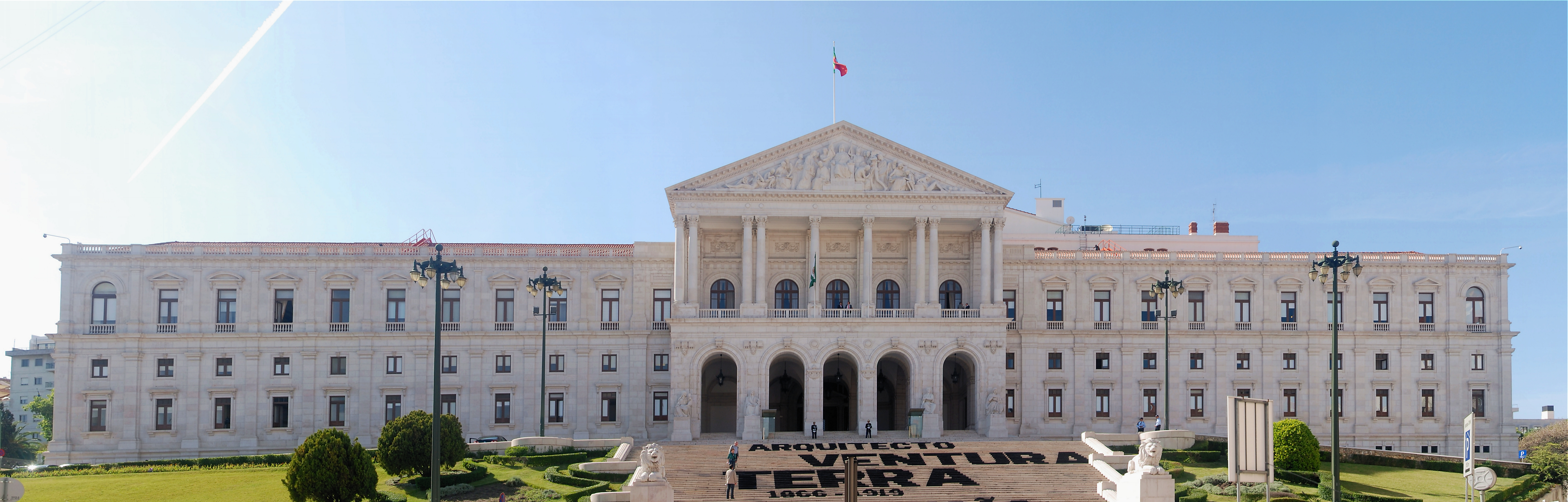 The Palace of São Bento, Lisbon, house of the Portuguese Parliament